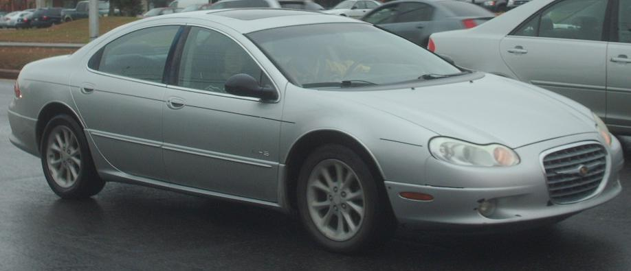 1999-2001 Chrysler LHS photographed in Montreal, Quebec, Canada.